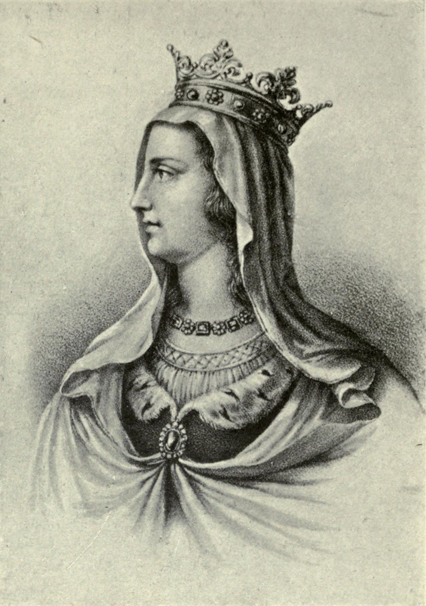 Caption bellow the image in the book reads: "Last part of the thirteenth century. Isabel of Aragon. Costume shows effect of luxurious but unafected mediævalism [sic]. Notice decorative quality."